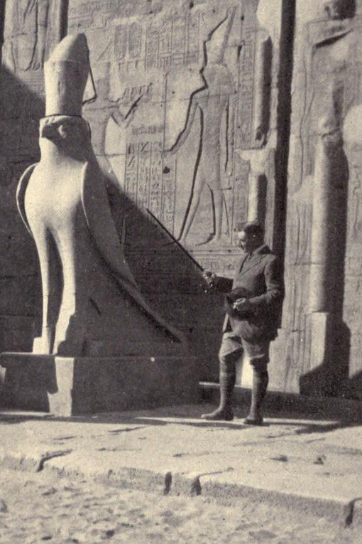 English Egyptologist Arthur Weigall beside a statue of Horus at the temple of Edfu, Egypt, 1913 or shortly before. Photo by N. Macnaghten.